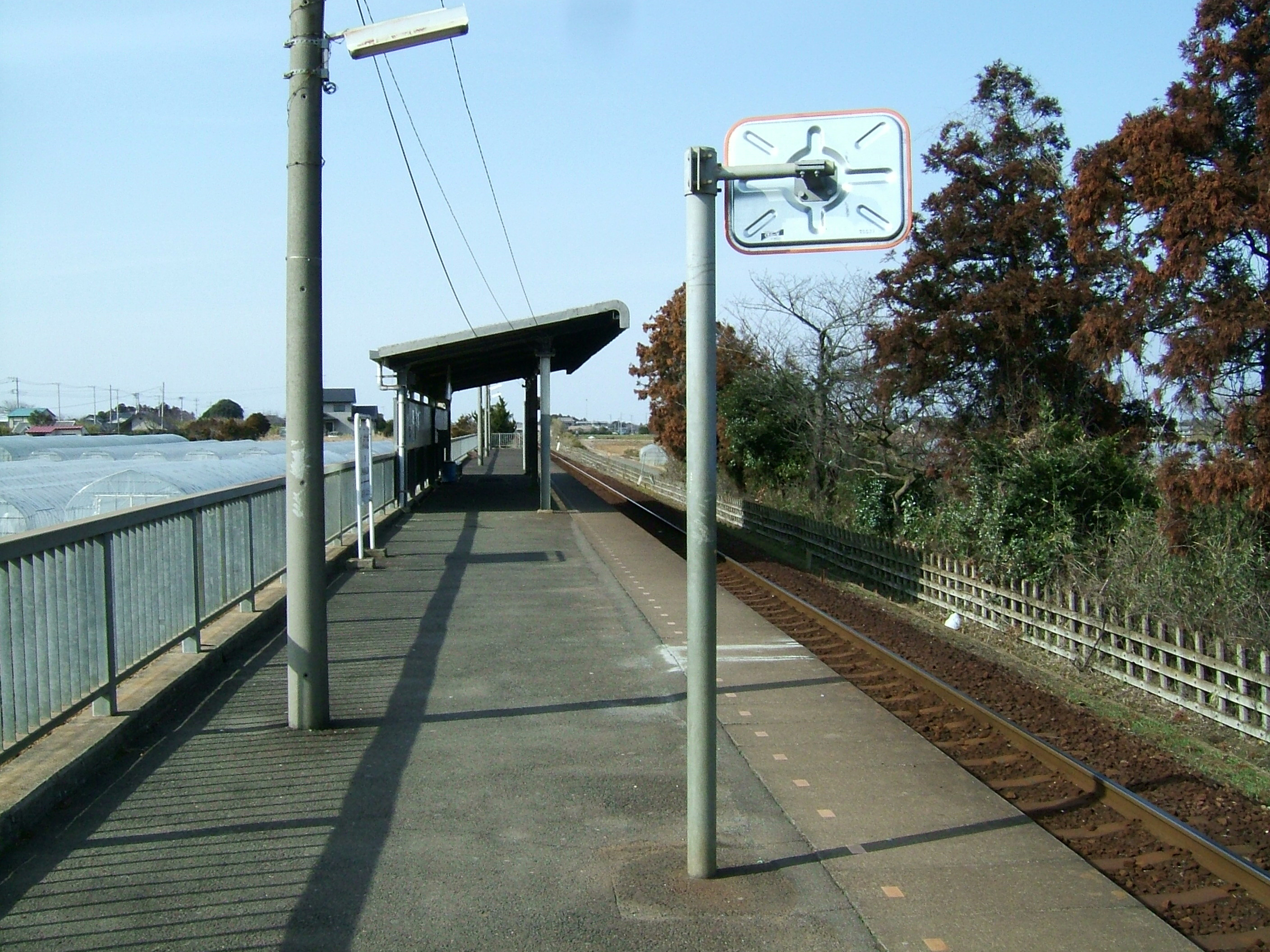 Kashima-Nada Station platform (Kashima Seaside Railway Oarai-Kashima Line)